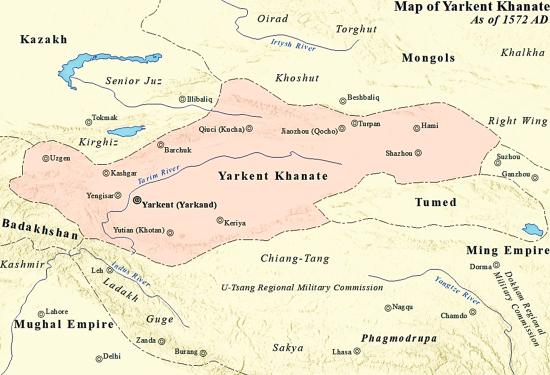 Map of the Yarkent Khanate at its greatest extent (as of 1519 AD)